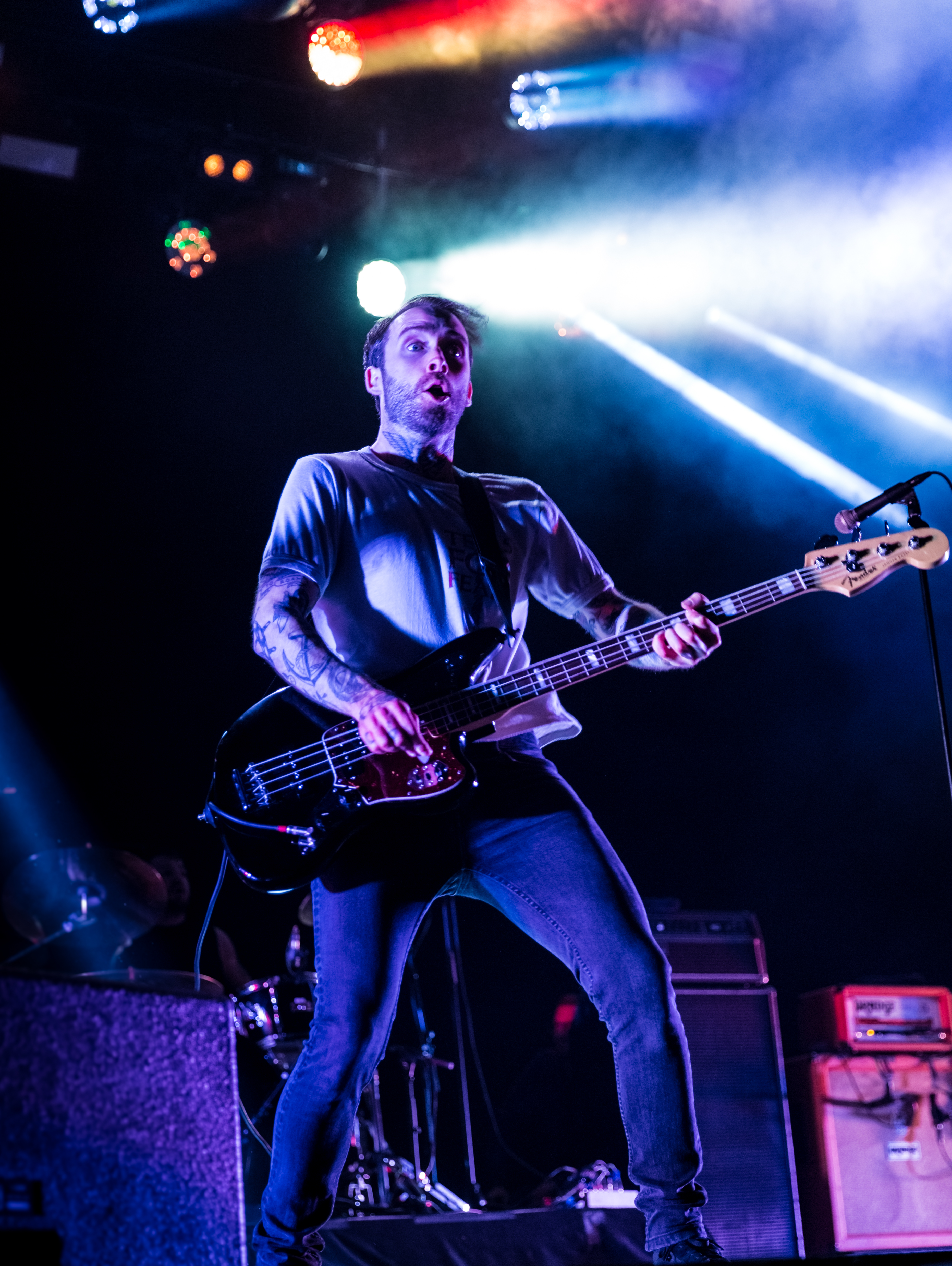 Alexisonfire - Rock am Ring 2018